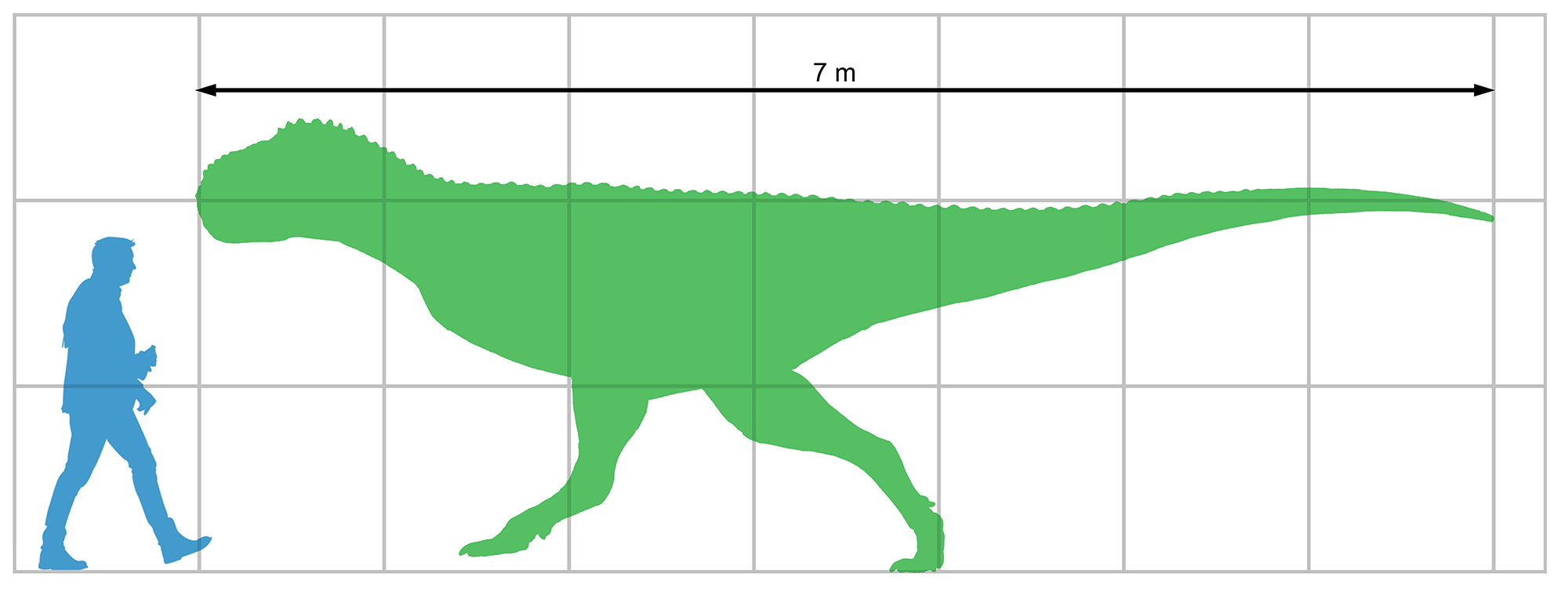 Size comparison of Chenanisaurus barbaricus to human